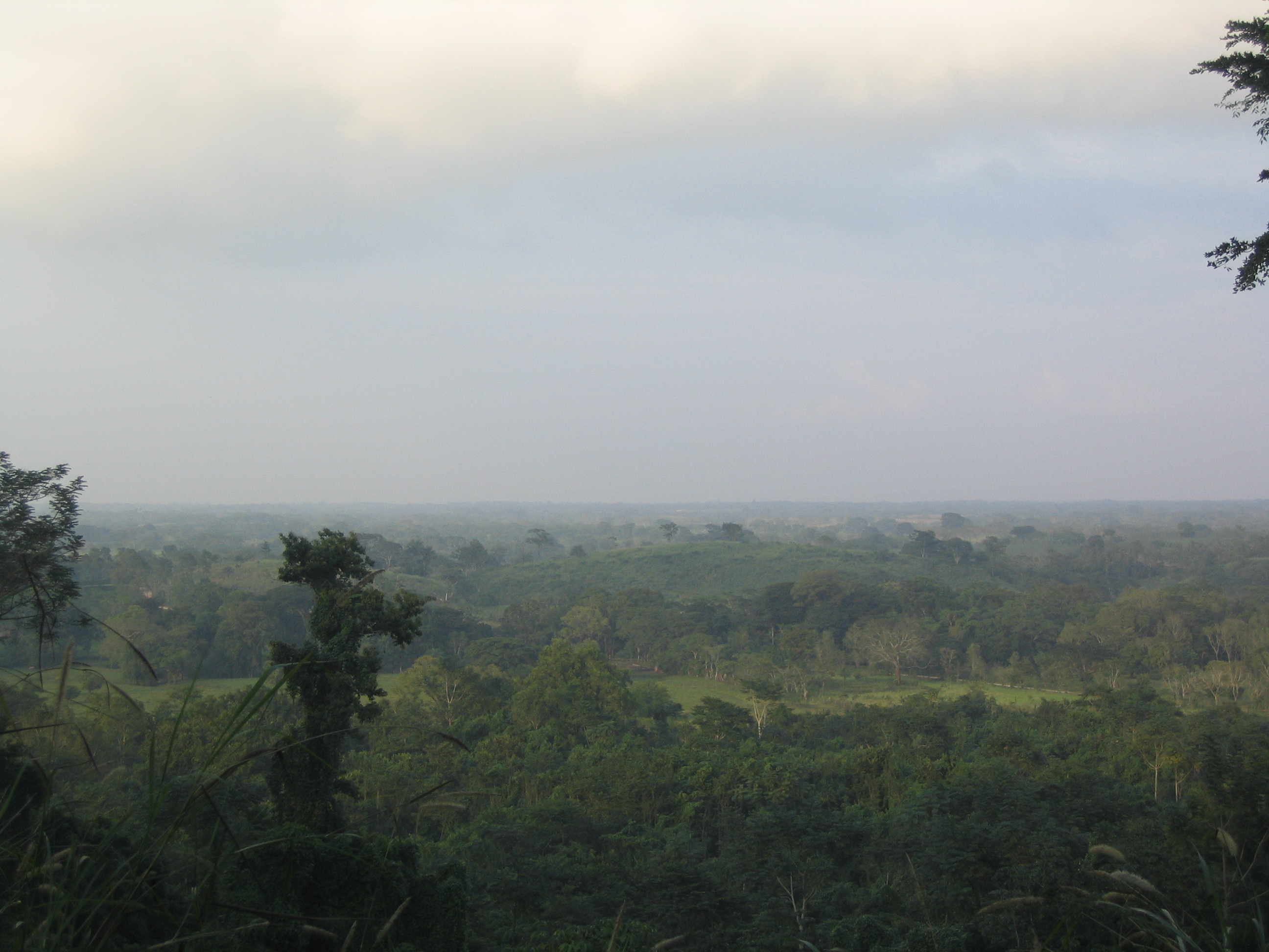 Selva Lacandona own work Dez 2006